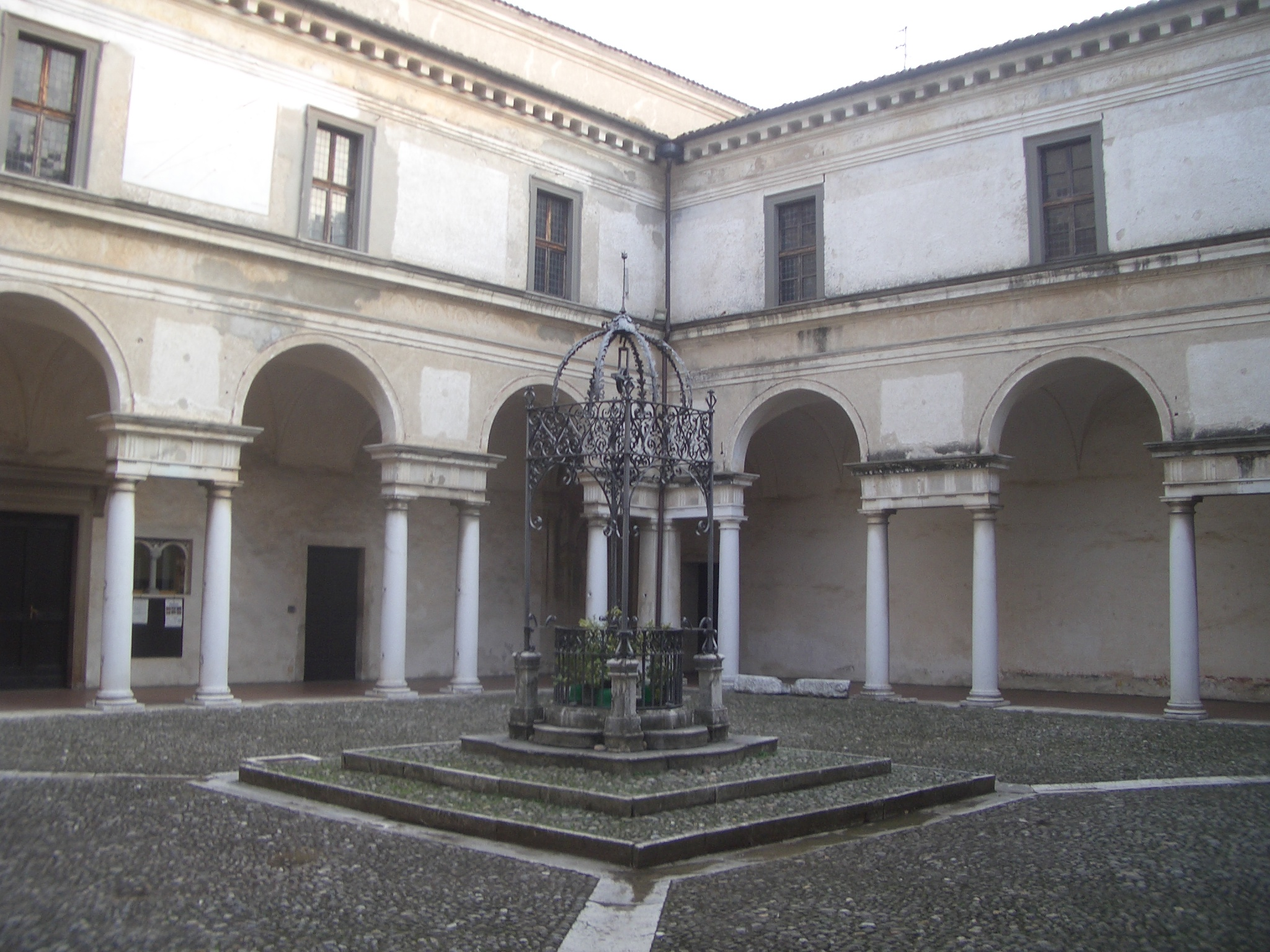 One of the three cloisters of the abbey, called "chiostro della cisterna”, XVI century